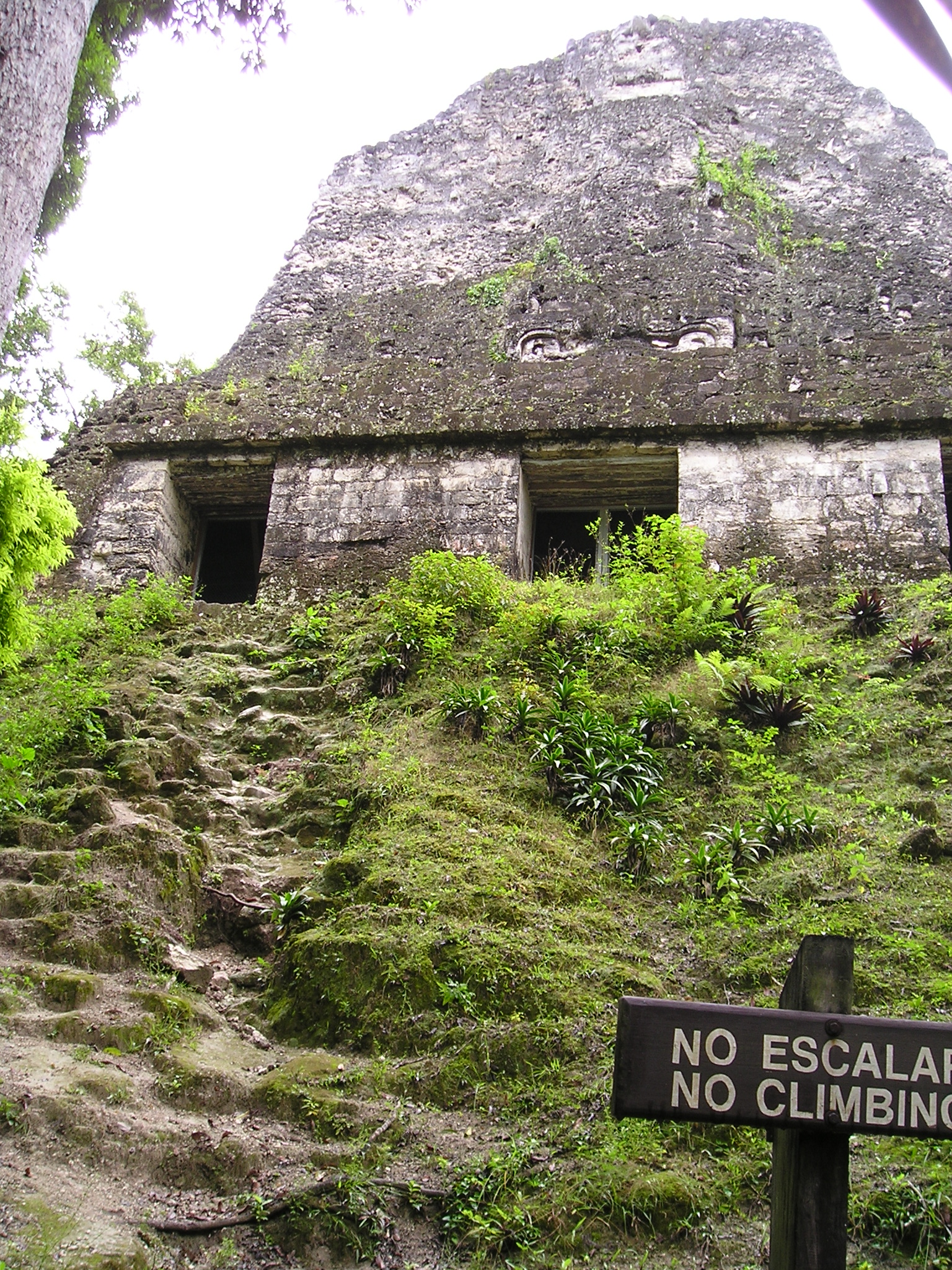 Temple VI, Tikal